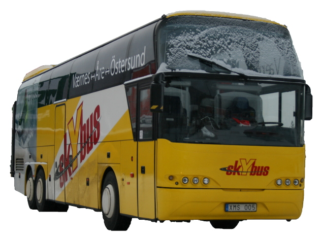 Neoplan Cityliner N1116/3H coach in Sweden. Built 2006, Skybus operator.